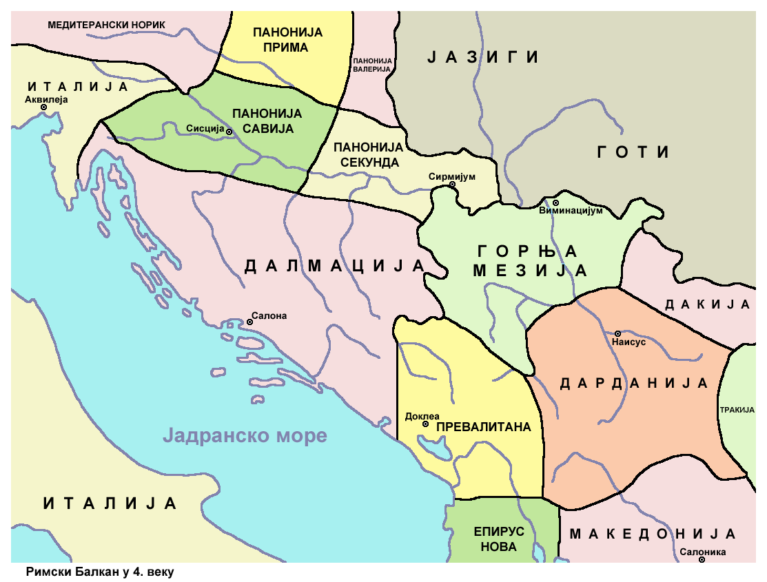 Ancient Roman Balkans in the 4th century.